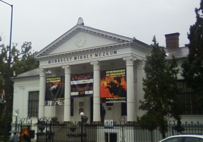 The Museum Mihály Munkácsy in Békéscsaba, Hungary